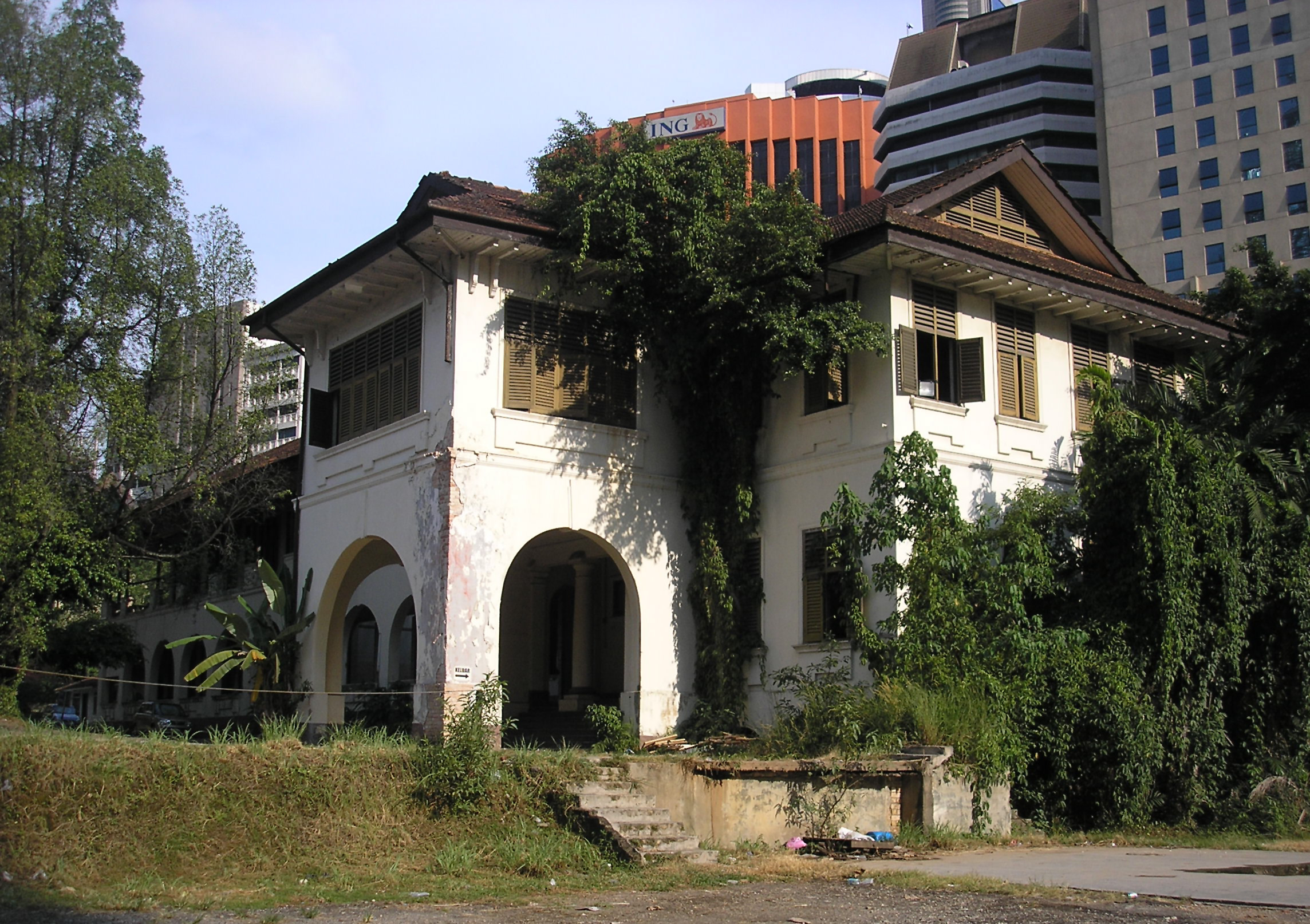 The dilapidated main school building of the St. Mary's Girls School at Jalan Tengah (directly translated as "Middle Road"), as seen towards the southeast, in the Golden Triangle, Kuala Lumpur, Malaysia.